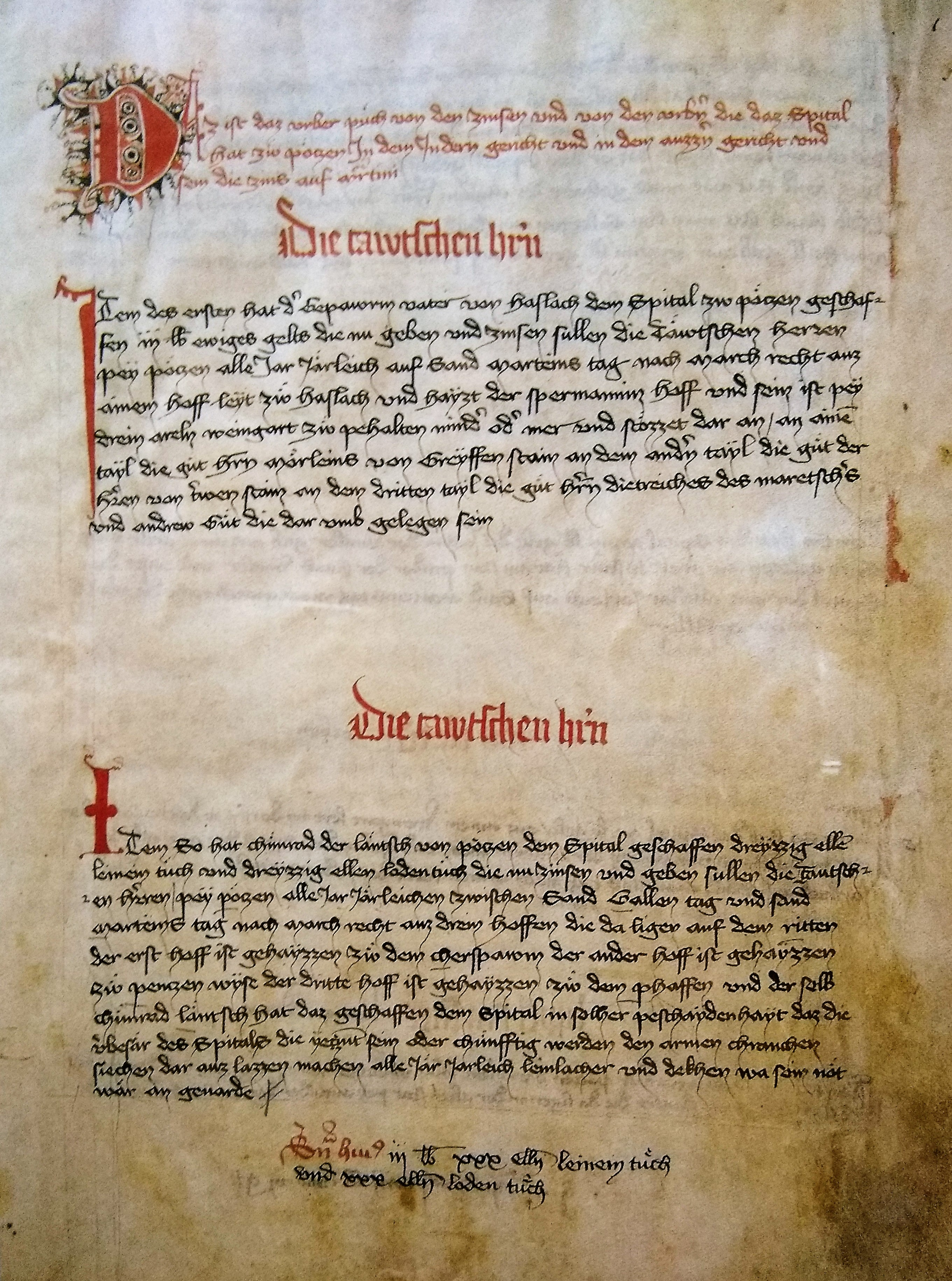 Urbarium (land rent and stock register) of the Hospital of the Holy Spirit in Bozen-Bolzano (South Tyrol) from 1420 (TLA Urbare 140/1, fol. 1r)